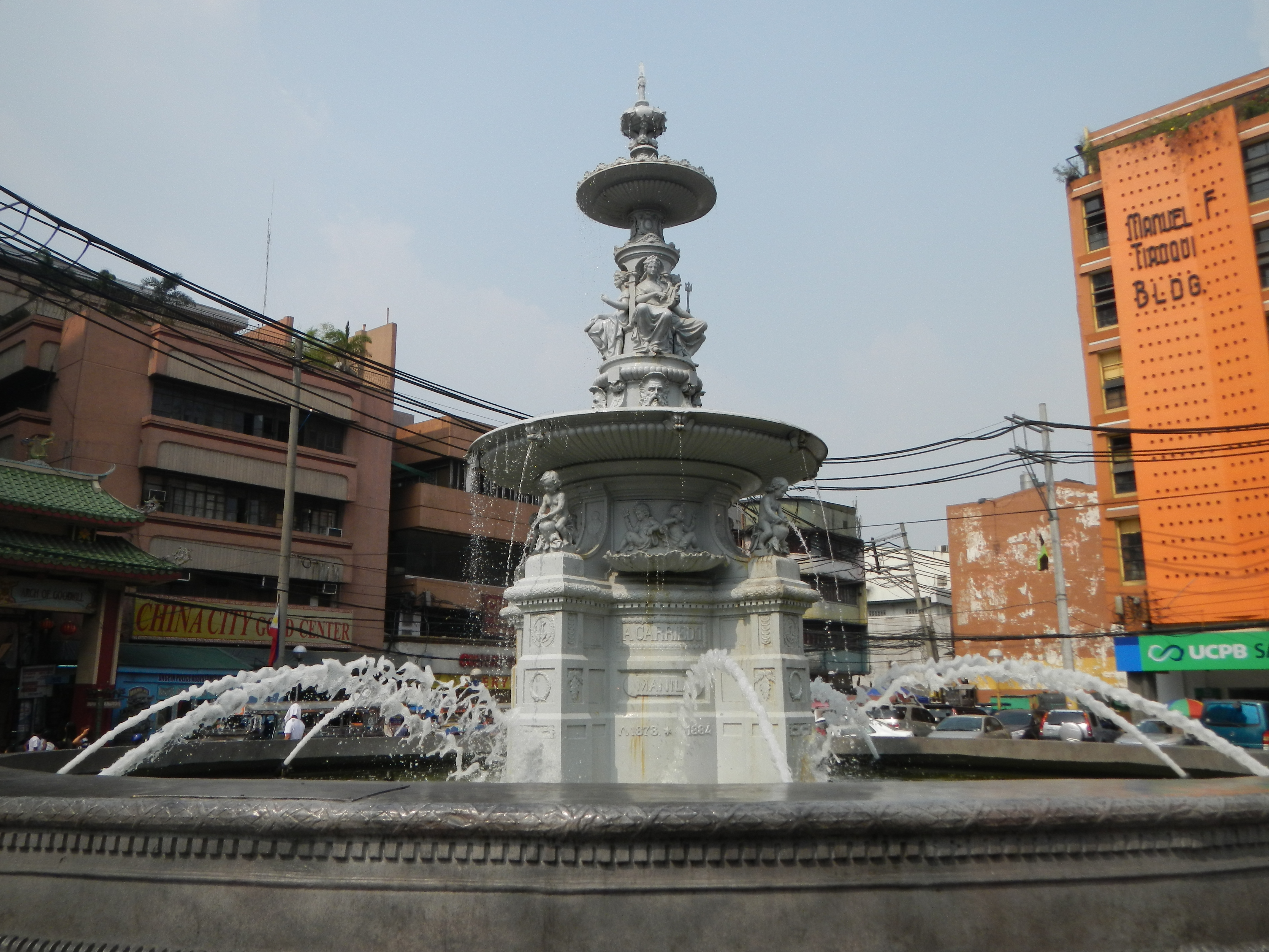 Plaza Lacson, Santa Cruz, Manila, in front of the Santa Cruz Church and Welcome Arch of Chinatown, Ongpin Street, Manuel F. Tiaoqui building, MBI building, Barangay 303, Zone 29, Disctrict 3.